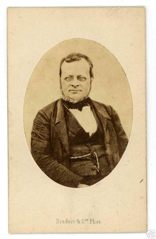 Camillo Benso, conte di Cavour (1810-1861), the first Prime Minister of the new Kingdom of Italy.